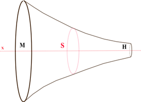 acoustical horn